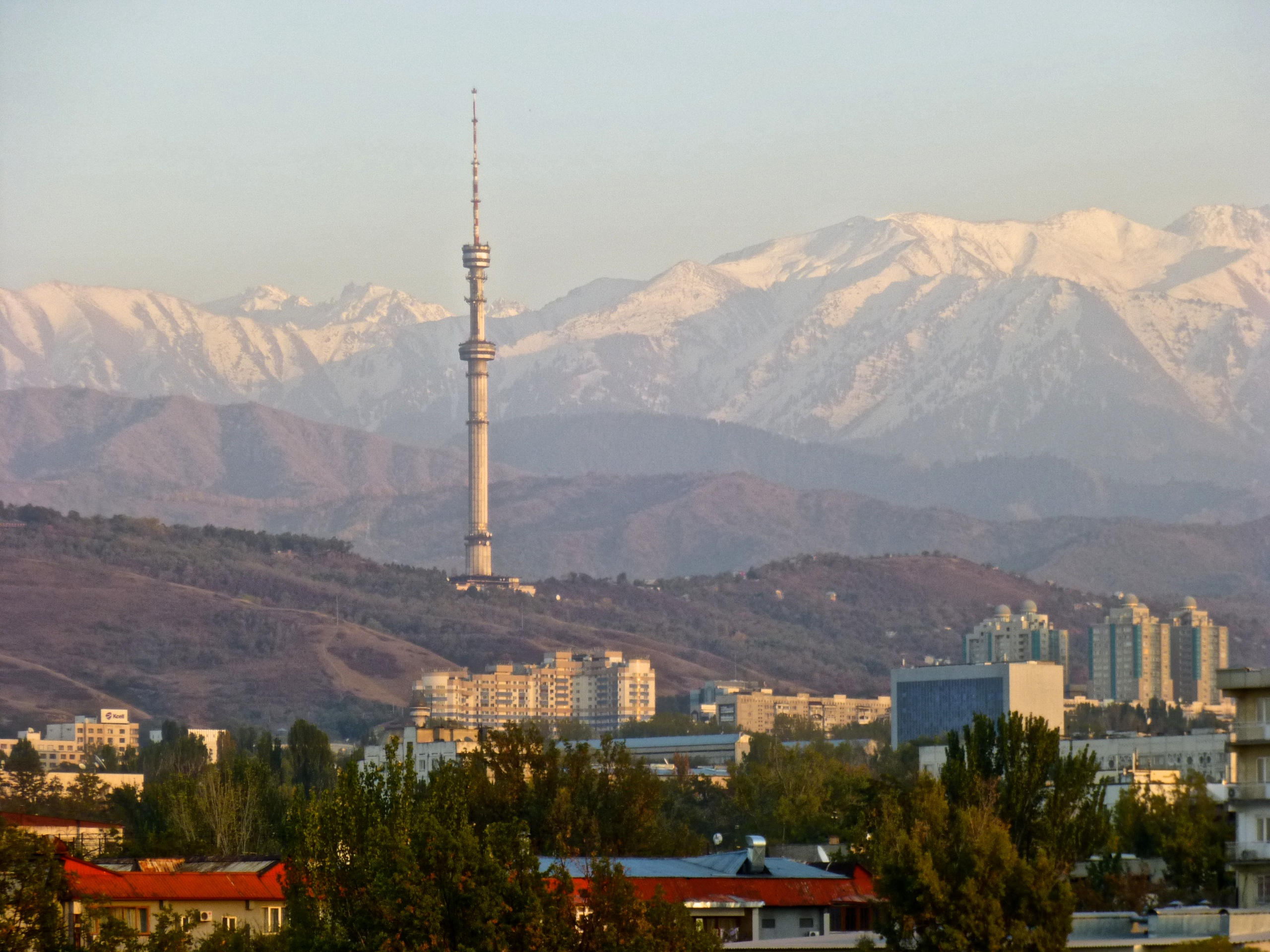 TV-Tower in Almaty, Kazakhstan, from downtown